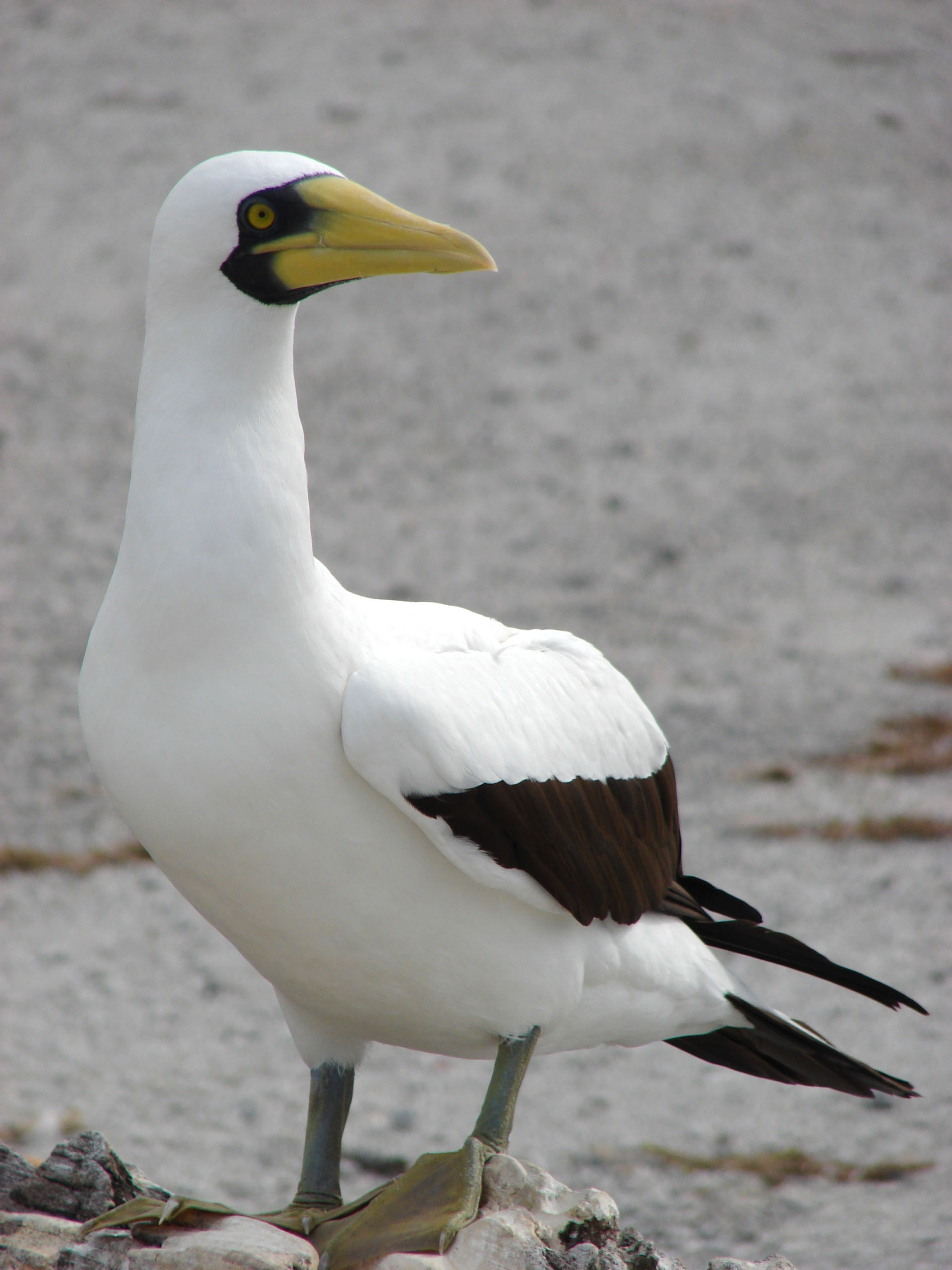 Coronopus didymus (habitat with masked booby on log). Location: Midway Atoll, Eastern Island